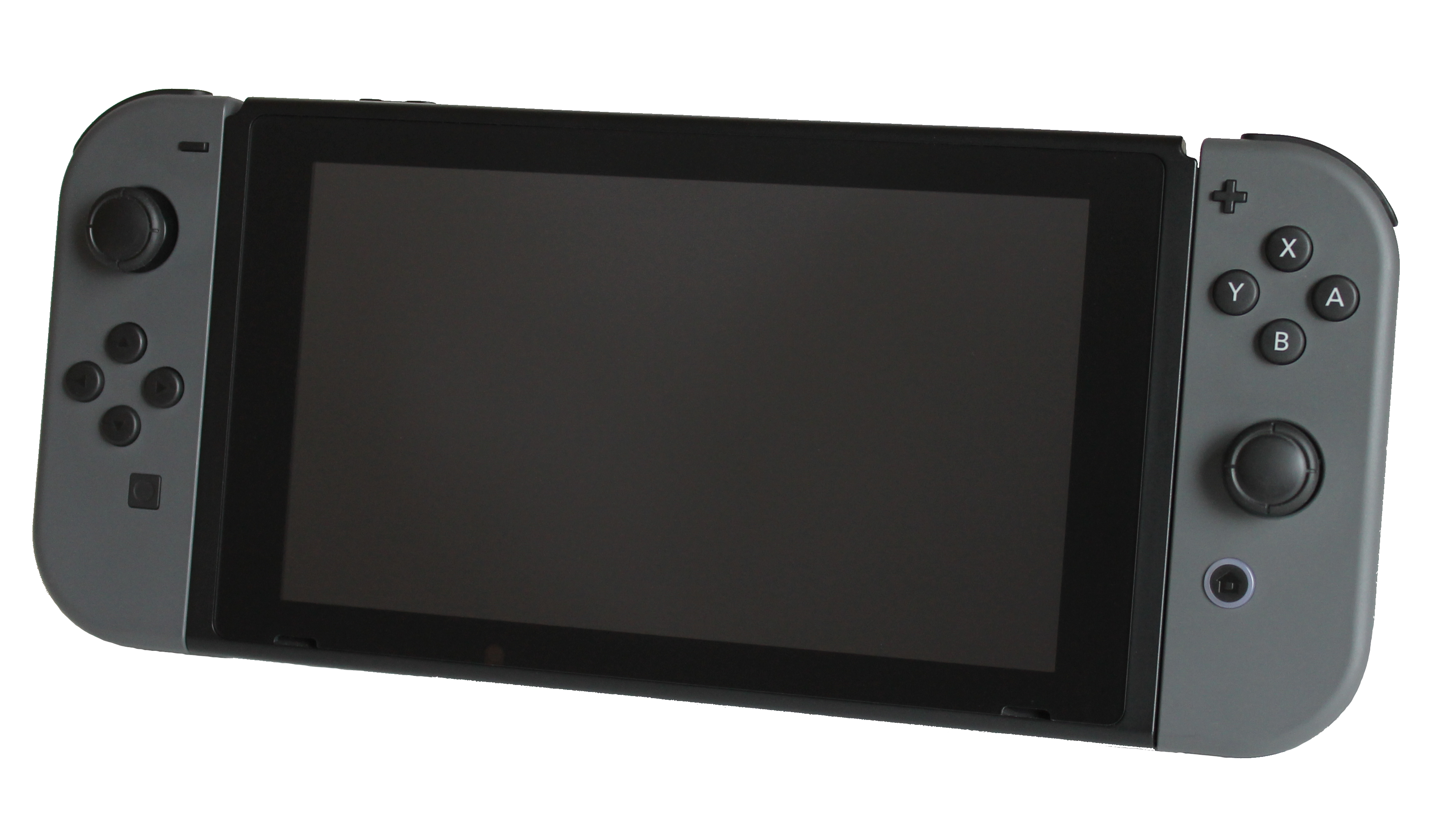 A Nintendo Switch video game console shown in handheld mode with Joy-Con controllers attached to console.